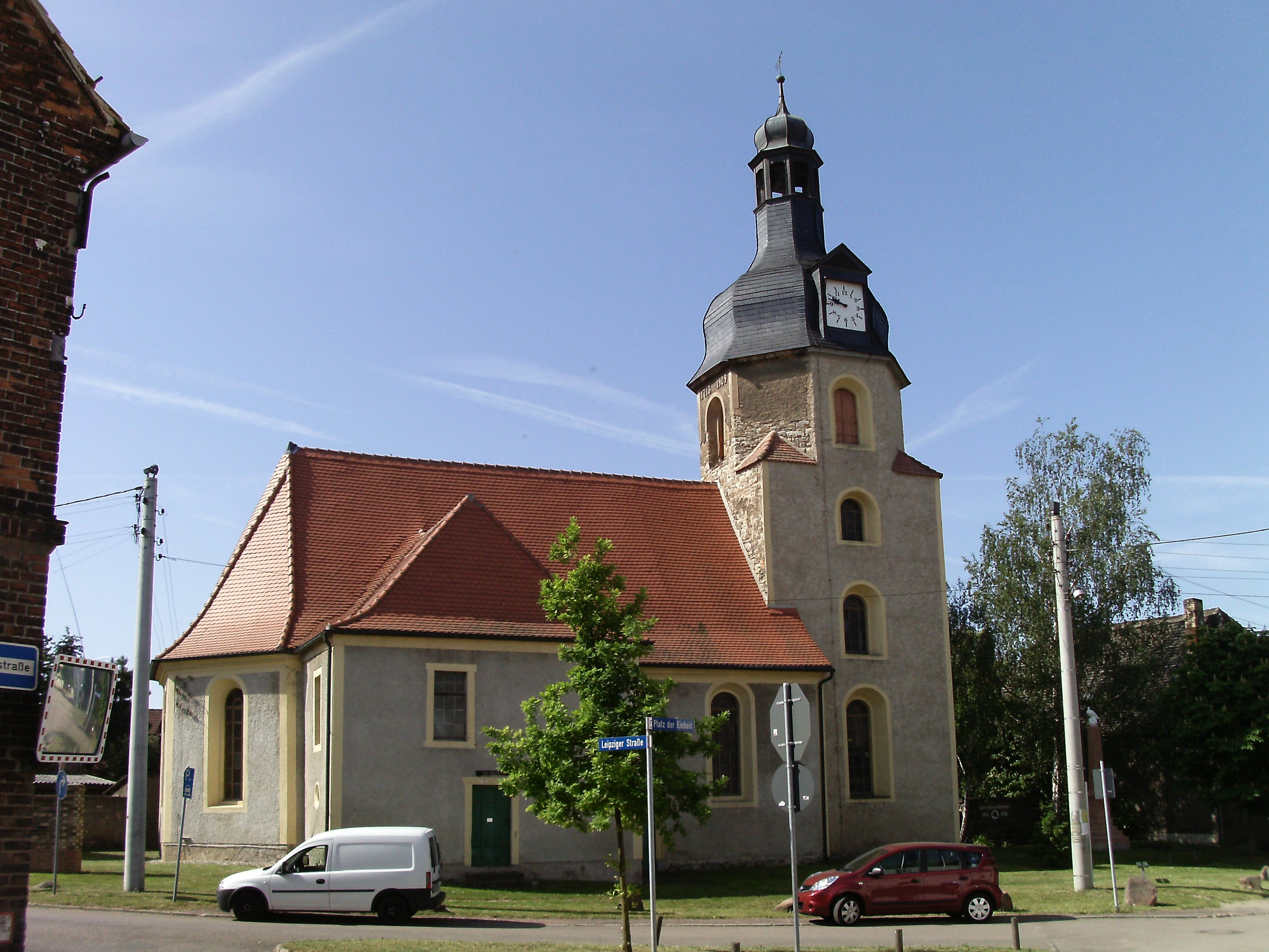 St. Vitus Church in Döllnitz (Schkopau, district of Saalekreis, Saxony-Anhalt)